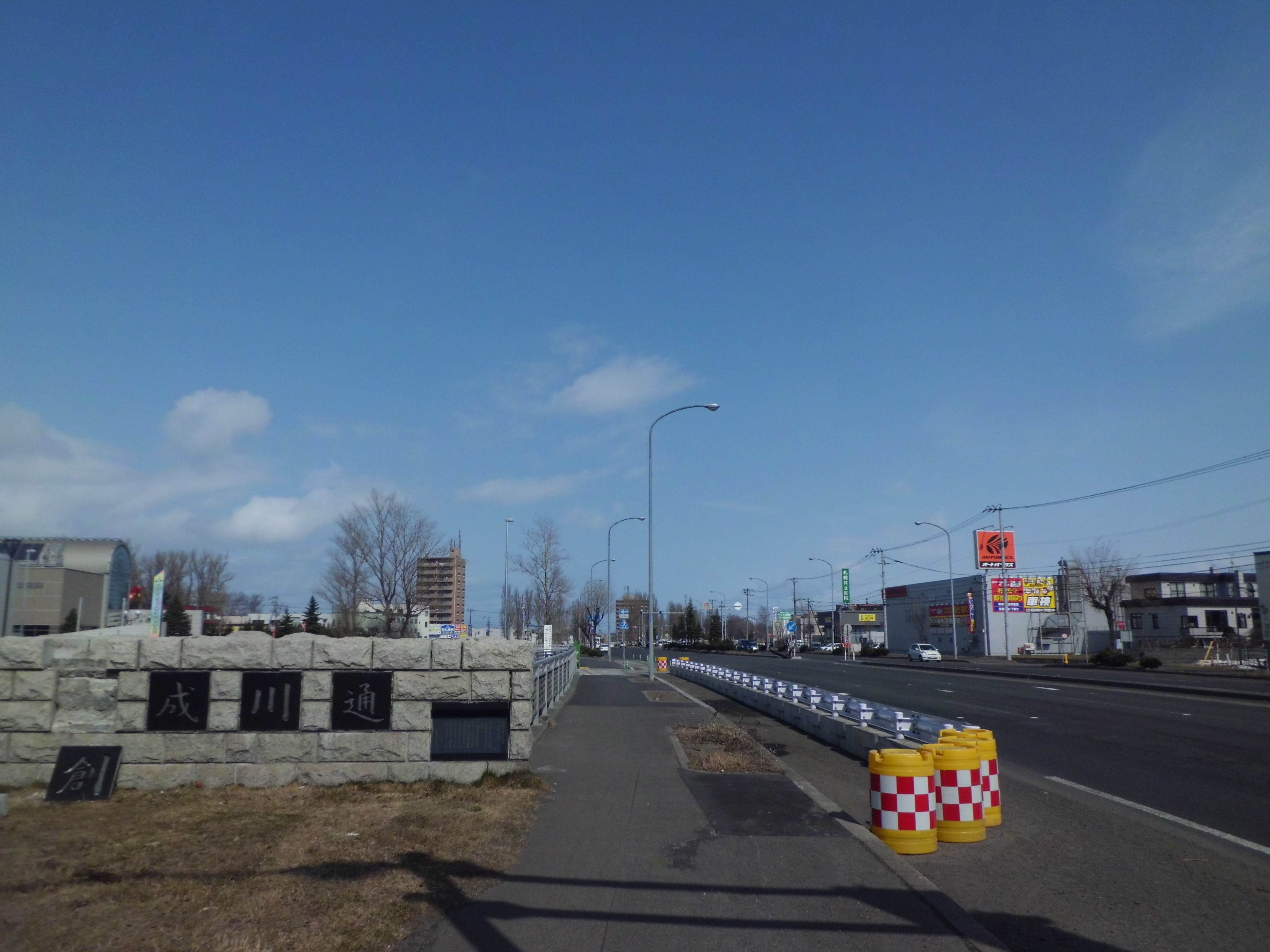 Soseigawa-dori Avenue. Looking north at Kita 47-jo.